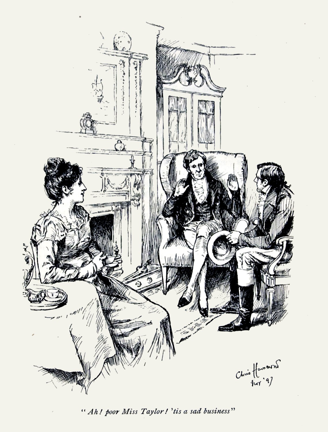 Emma (Jane Austen Novel) ch. 1 : Mr Woodhouse is commenting on Miss Taylor marriage to Mr Knigthley